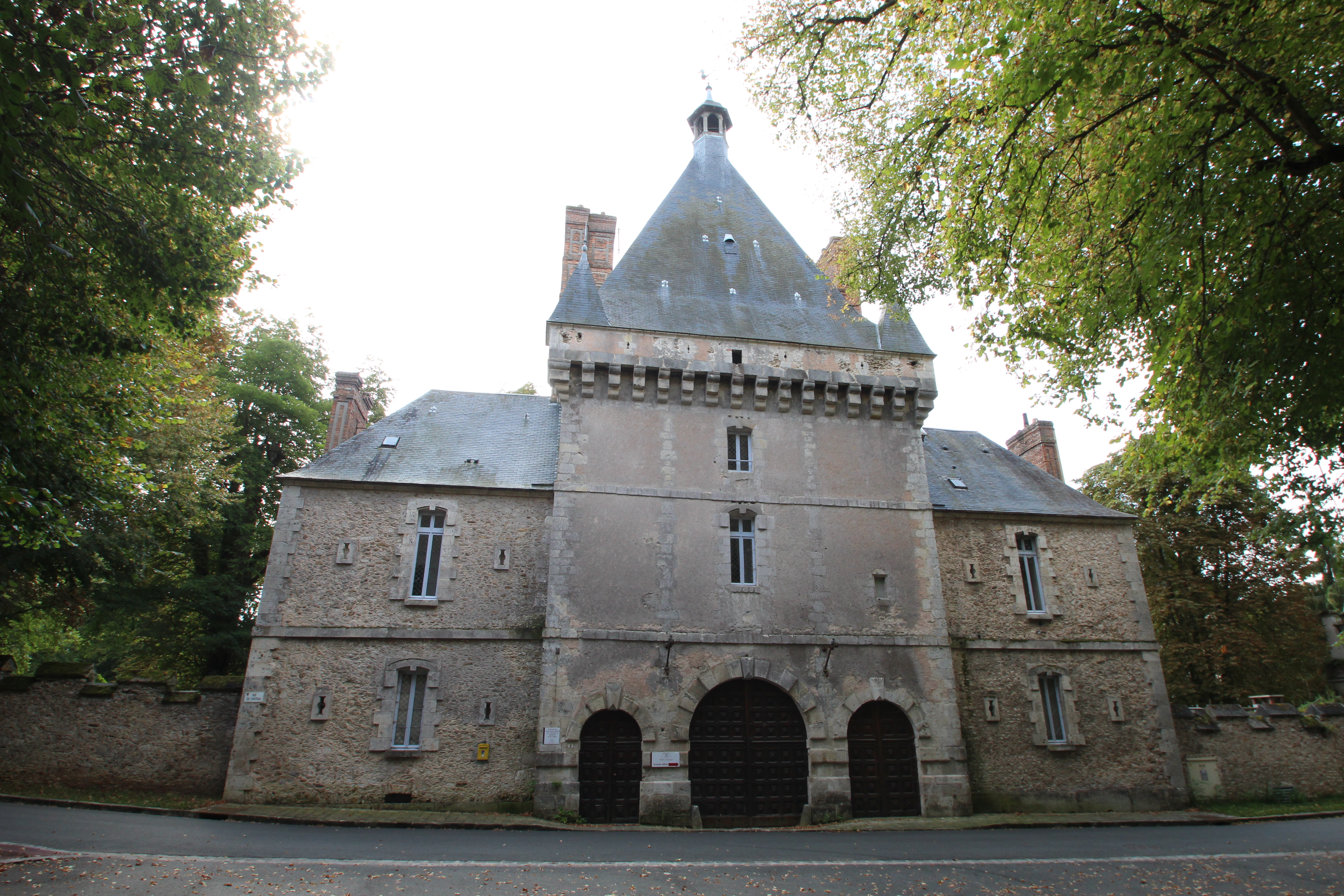 Esclimont castle in Bleury-Saint-Symphorien, France. Object location48° 31′ 11.41″ N, 1° 45′ 58.73″ E